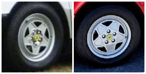 View of the two styles of road wheel of the Ferrari Mondial: Mondial 8 (left) and Ferrari Mondial 3.2 (right)